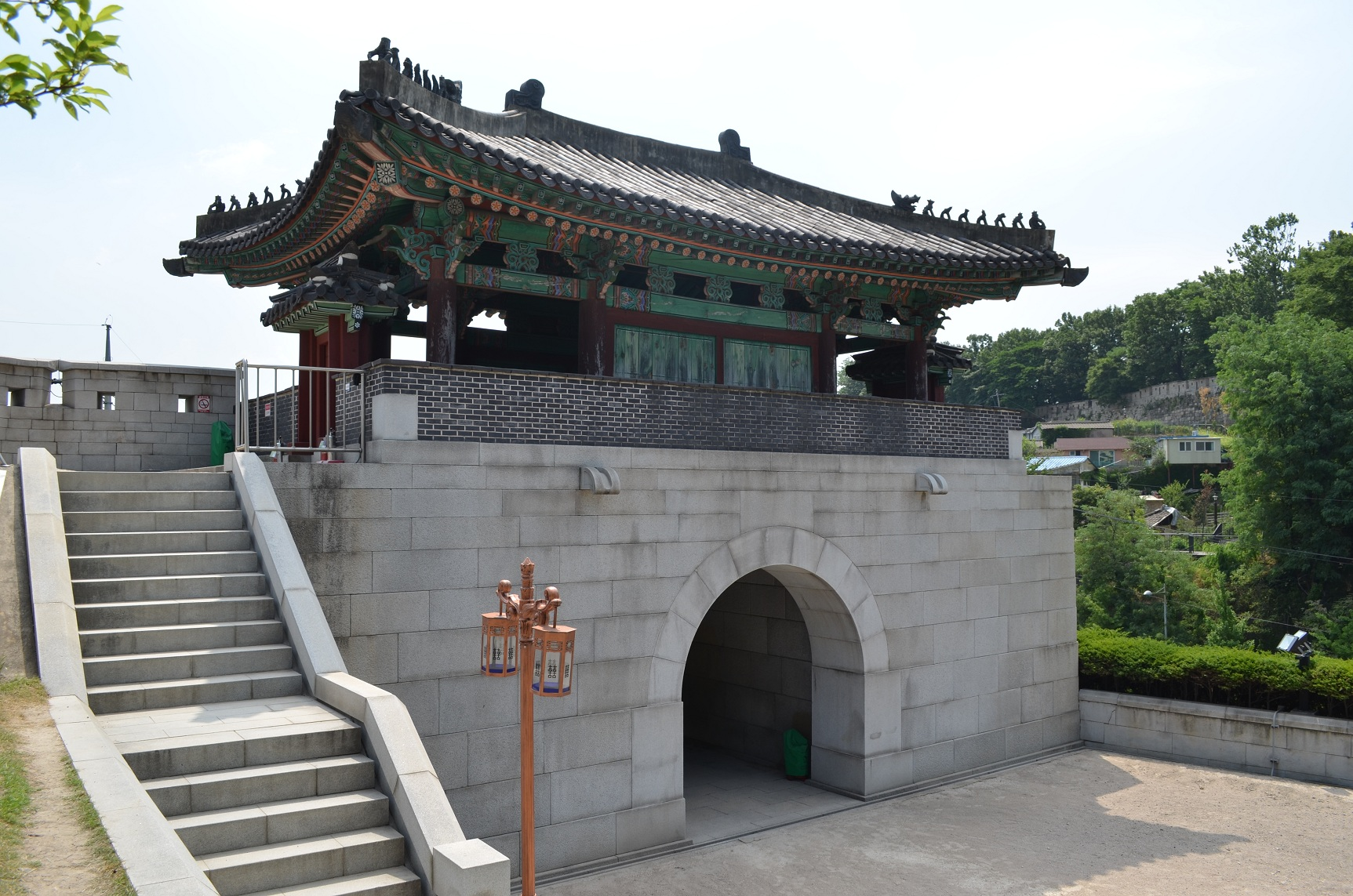 Hyehwamun Gate, also known as Northeast Gate or Dongsomun, Seoul, South Korea. Photographed May 5, 2012. Photo taken from the west, and shows portion of Seoul Fortress Wall across street.